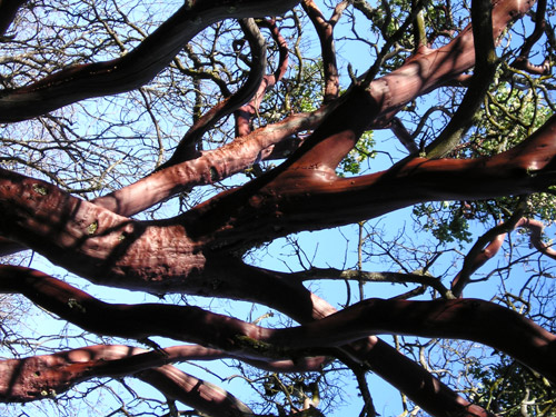 Pacific Madrone (Arbutus menziesii) — tree's branches with smooth deep red bark. Located in Henry Coe State Park, California.